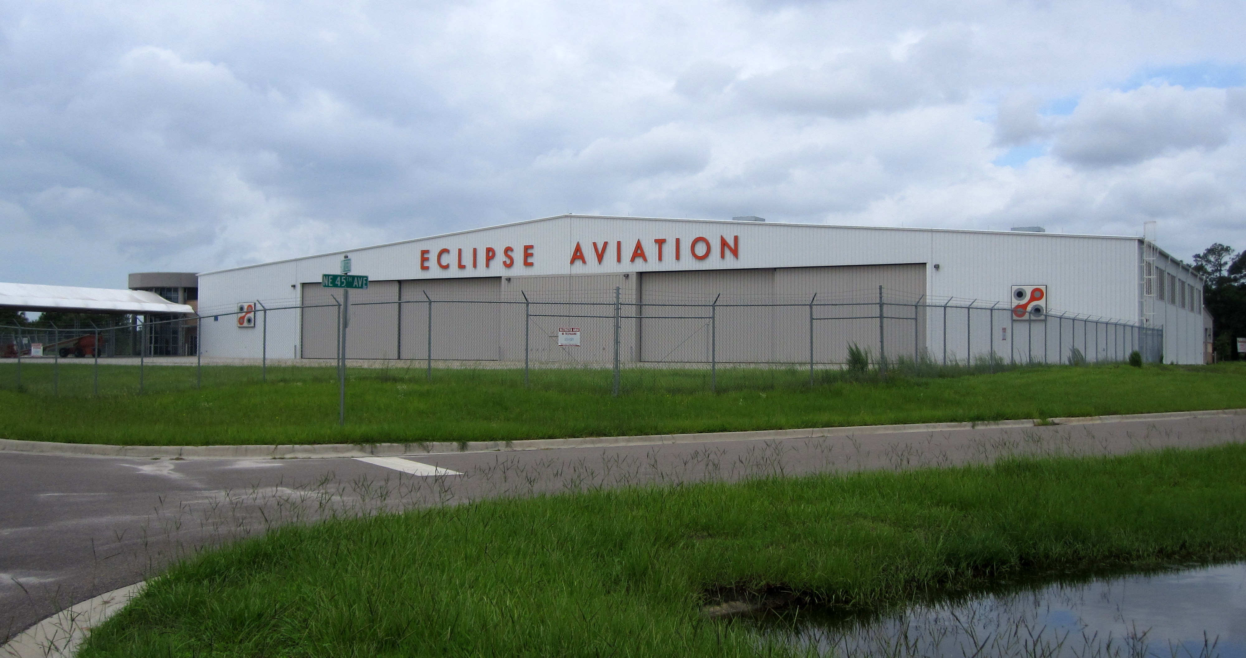 Eclipse Aviation service center. Since Eclipse declared bankruptcy in 2009, this building has remained vacant